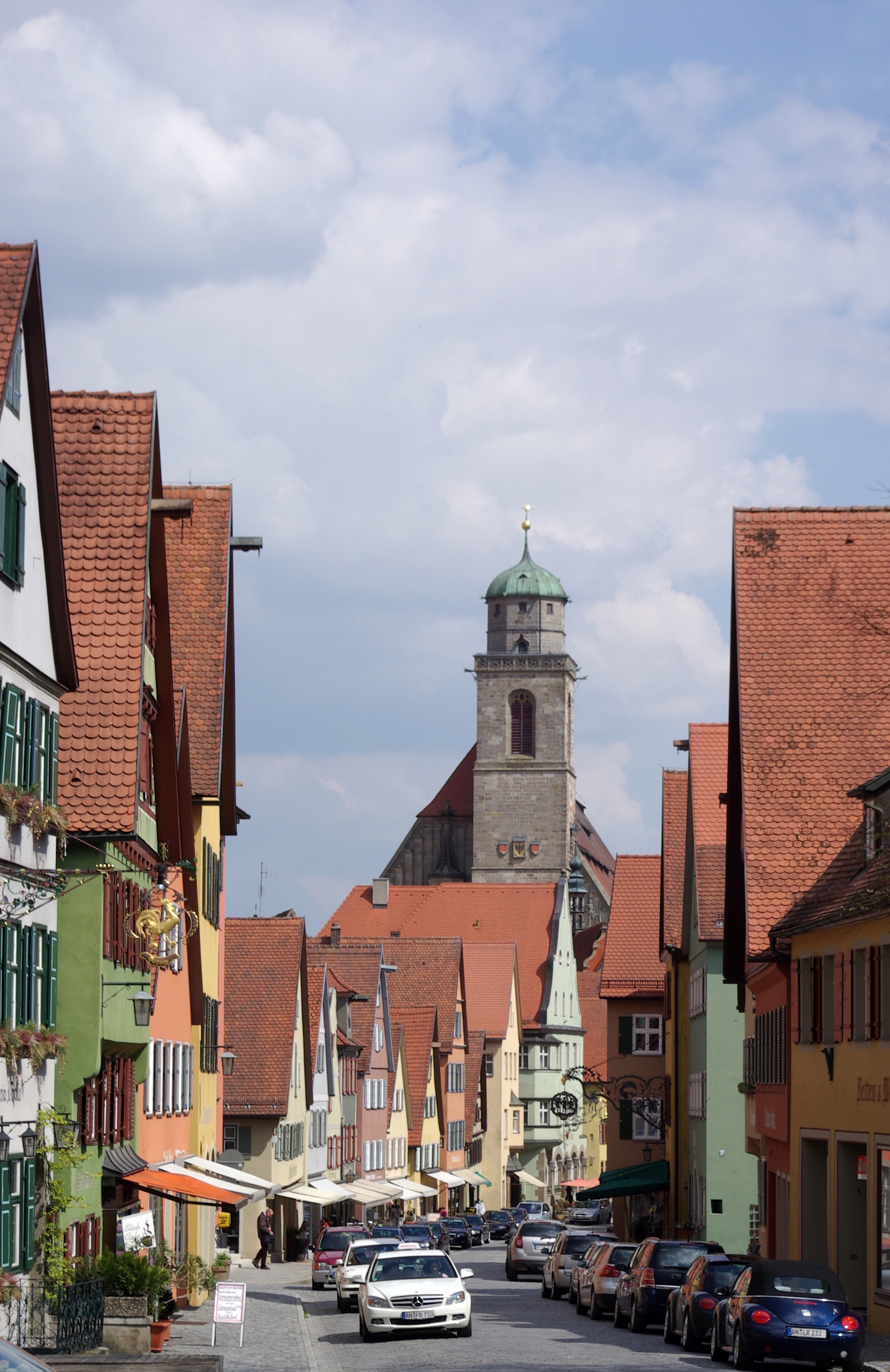 Germany, Dinkelsbühl, Segring Street and Church St. Georg